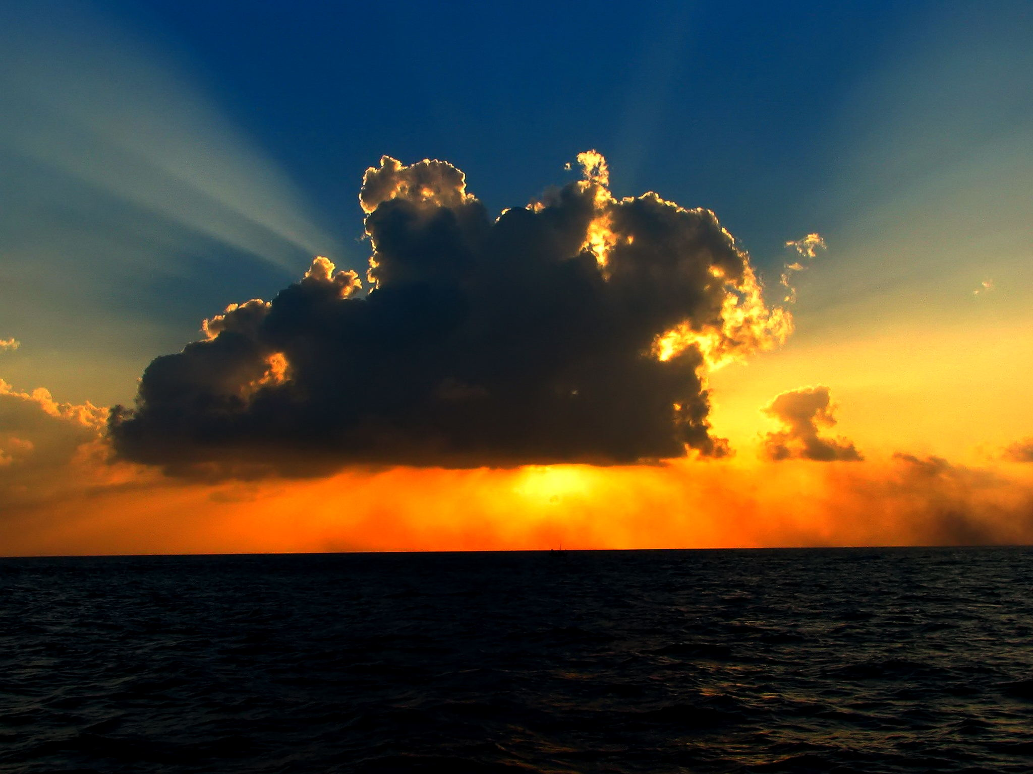 Photo of a cloud illuminated by sunlight.